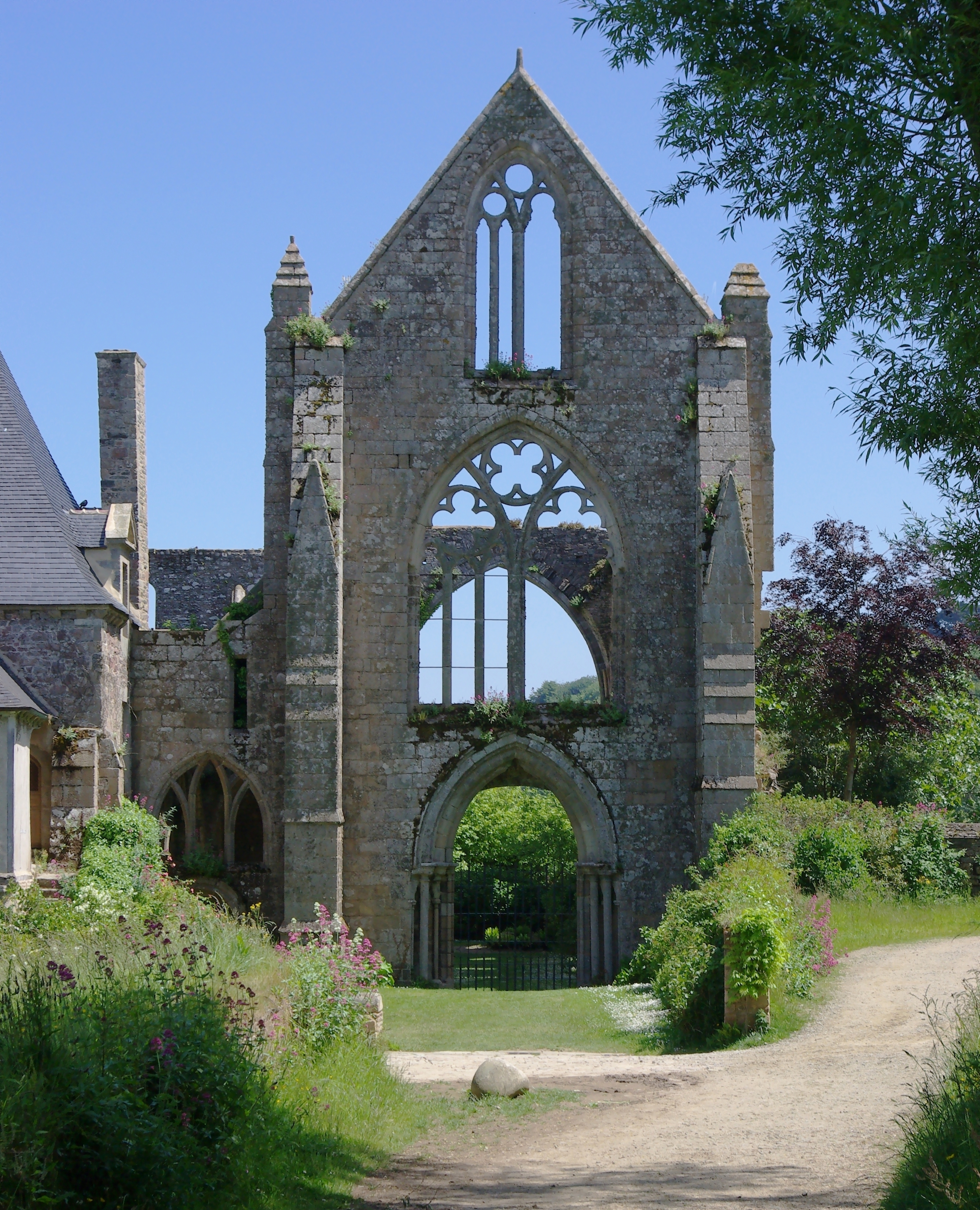 The Beauport abbey (13th century): remains of the facade of the nave. Located in Kérity, in the municipality of Paimpol (Côtes-d’Armor, France).